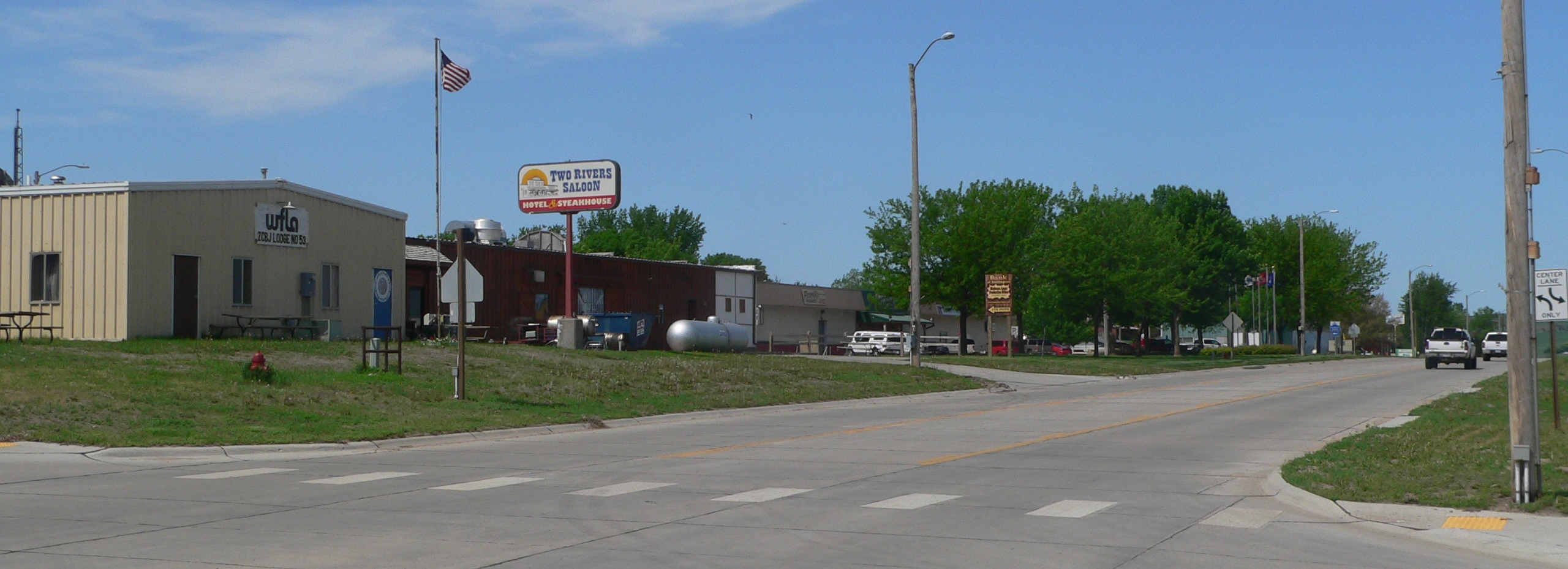 Niobrara, Nebraska: Walnut Street (Nebraska Highway 12), looking southwest from about Spruce Street.